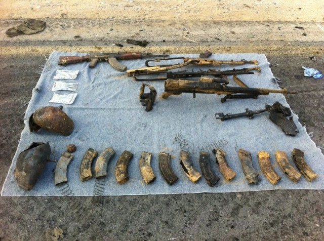 Weapons used by persons during the 2012 Egyptian-Israeli border attack, which killed 16 Egyptian soldiers and infiltrated Israel before being killed by the Israeli Air Force.